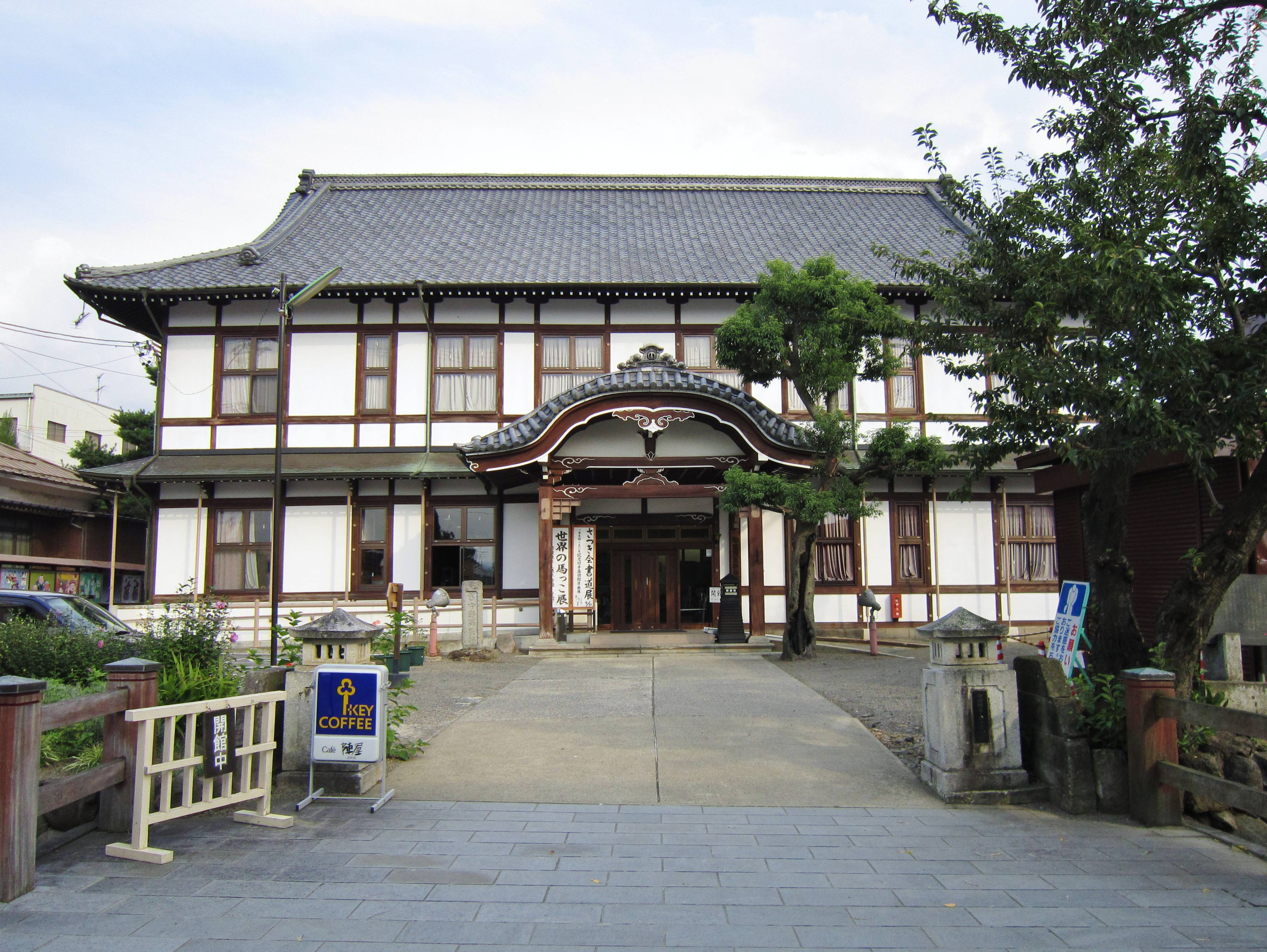 Nakano Jin'ya.